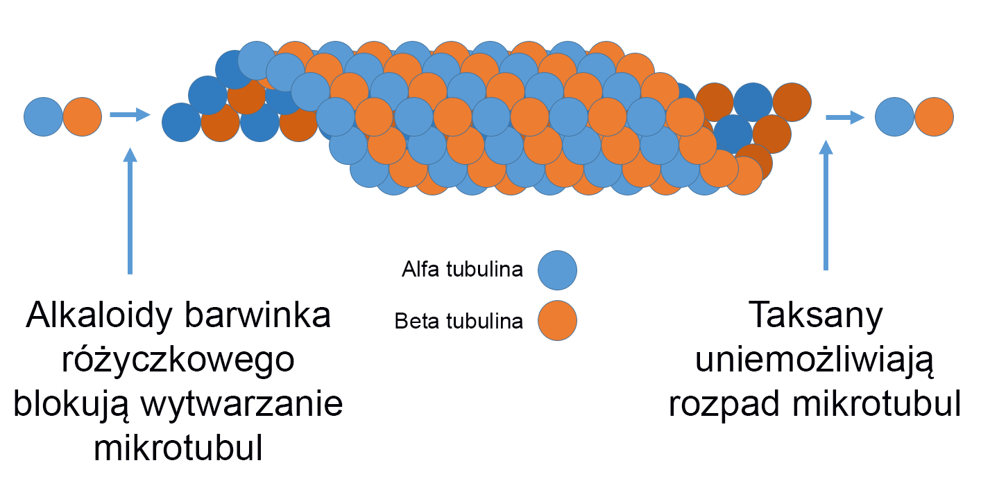 Microtubules are hollow tubular structures found within cells. They are formed from heterodimers alpha- and beta-tubulin. Anti-cancer drugs target these structures by either preventing their assembly or disassembly. This leads to defective mitosis.